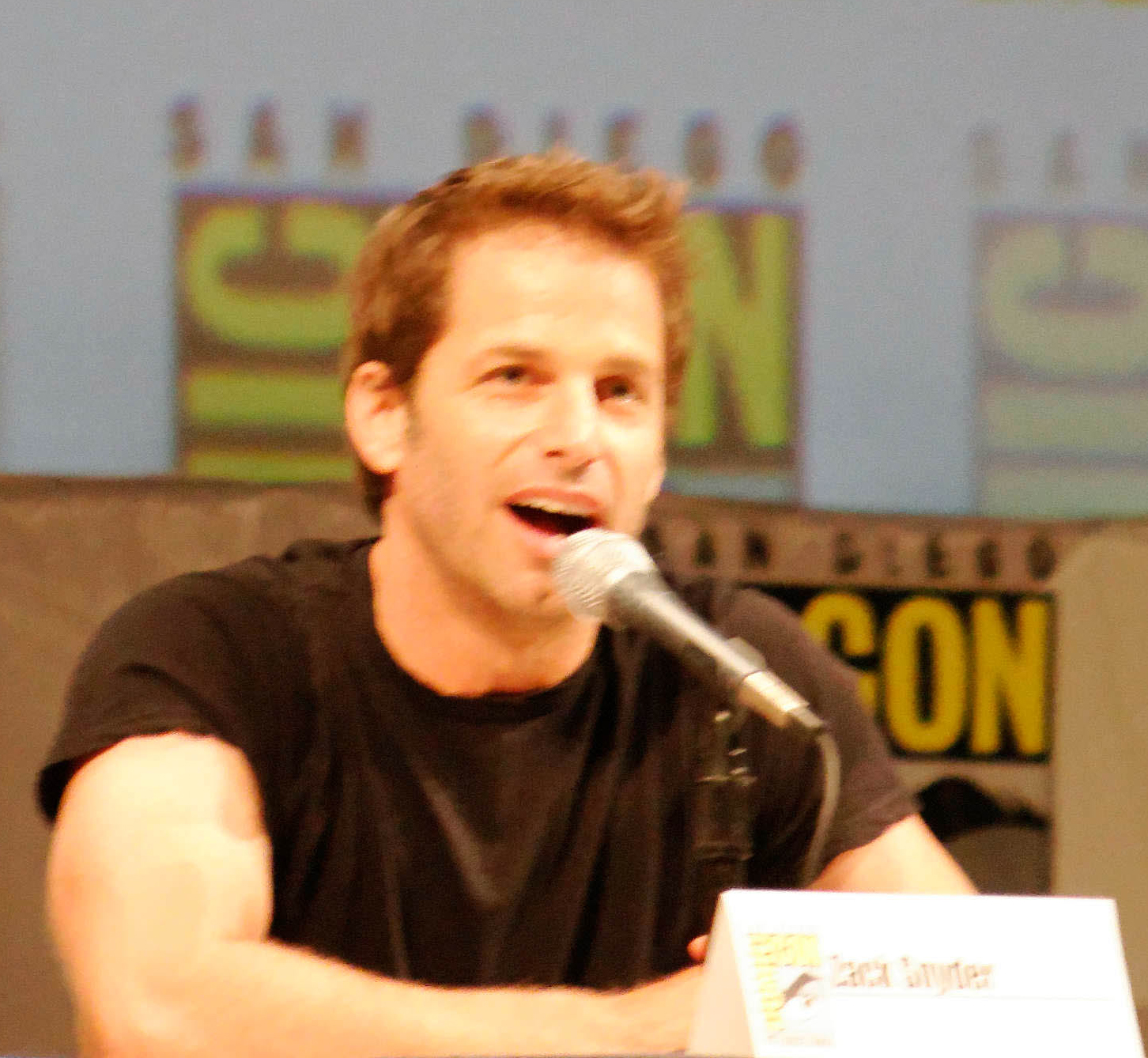 Zack Snyder at the 2010 San Diego Comic-Con International.